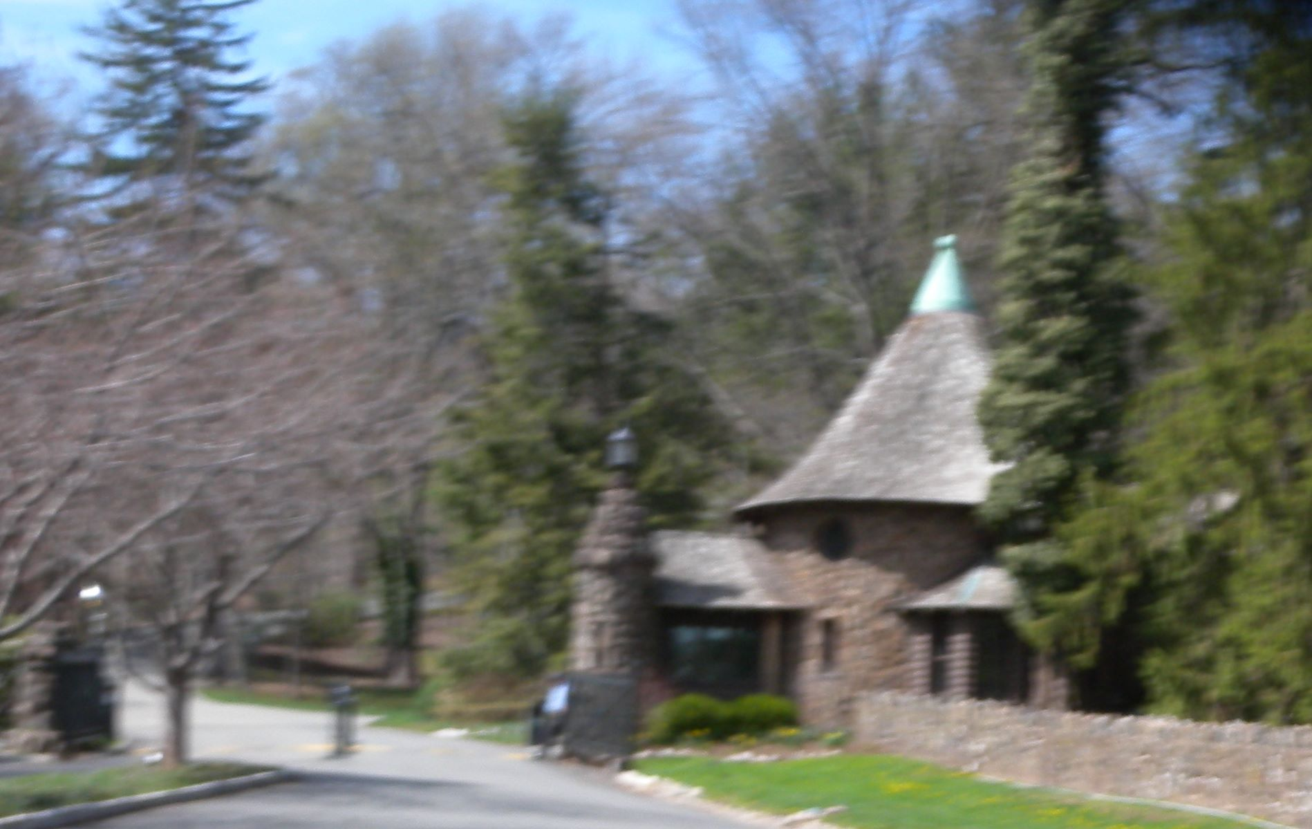 Looking northwest at gate from Park Avenue on a sunny midday. Bad focus due to haste and a slightly malfunctioning camera.